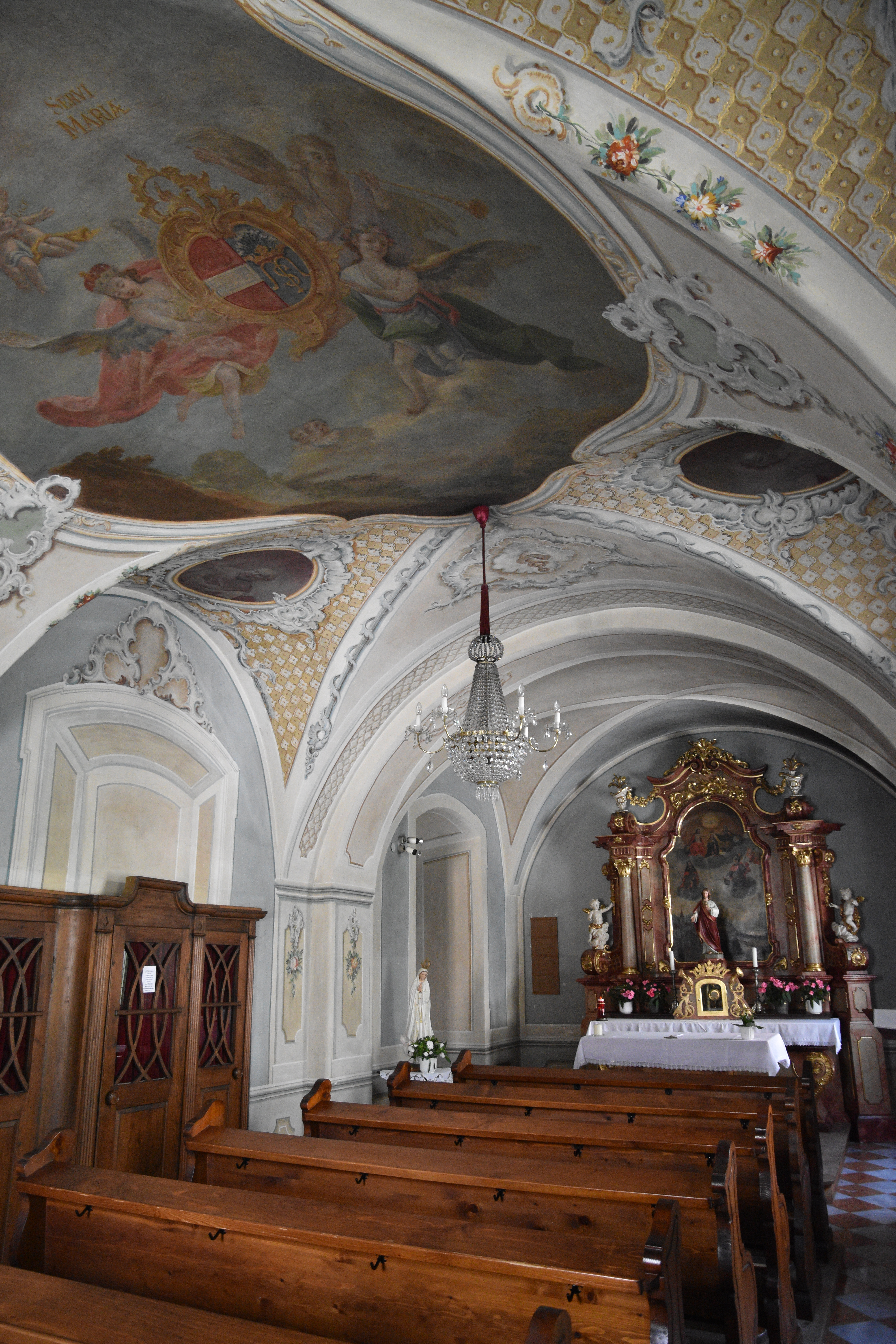 Chapel Frohnleitner Pfarrkirche